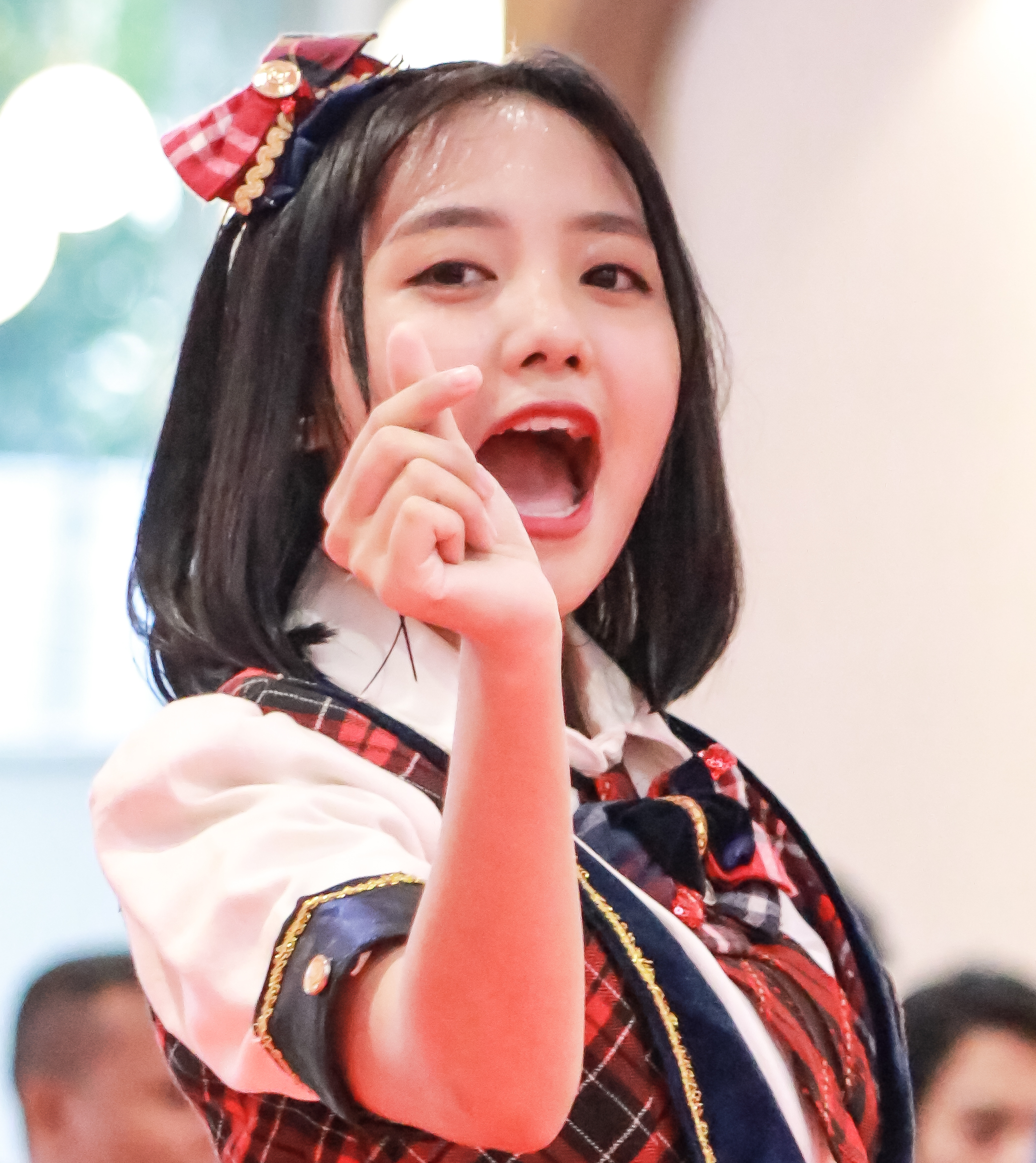 Nabila Yussi Fitriana on 17 January 2020